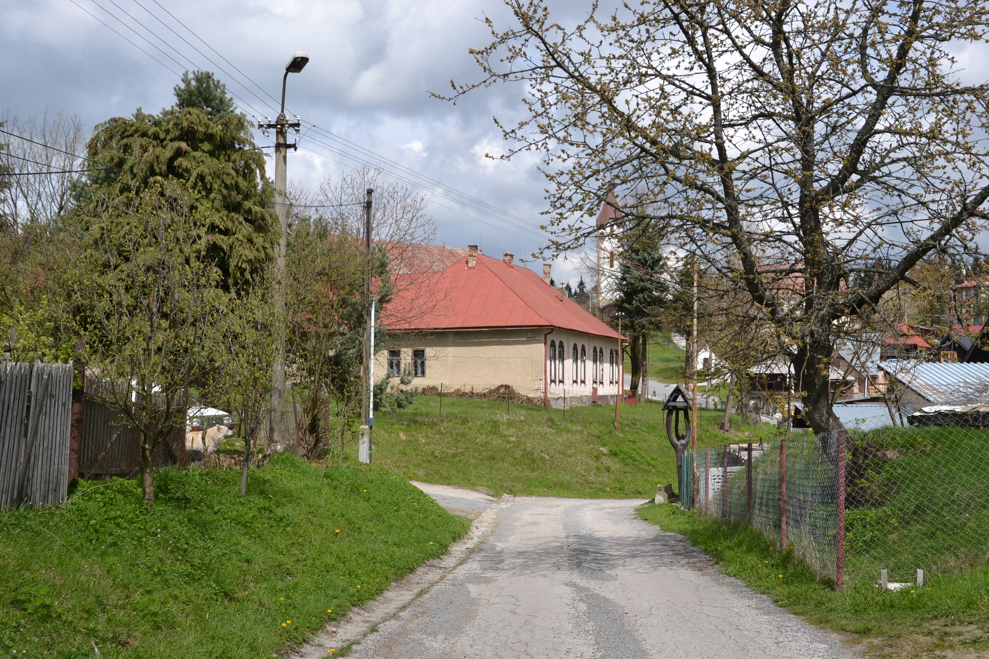 Lom nad Rimavicou (Forgácsfalva), Slovakia